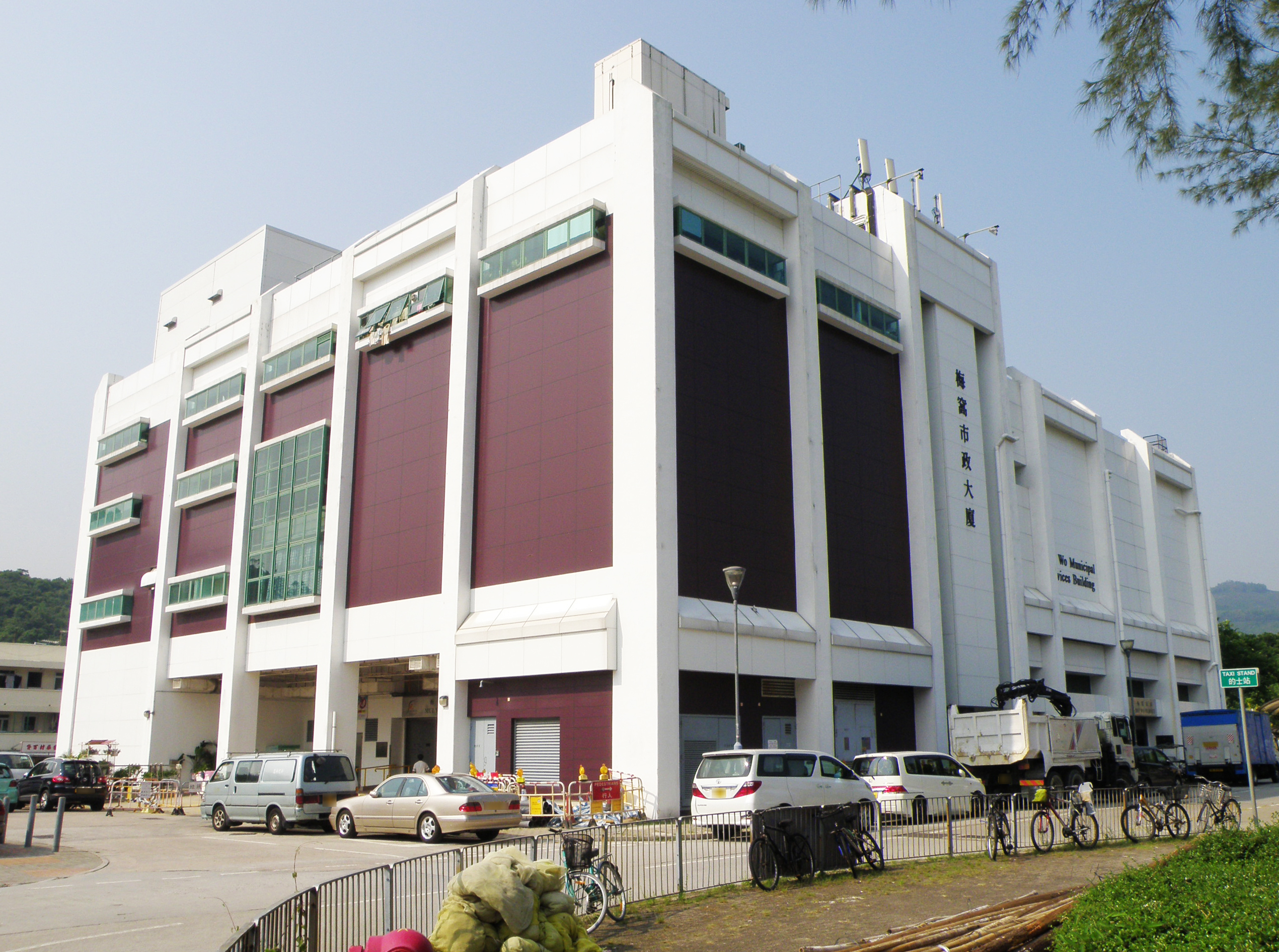 Municipal Services Building in Mui Wo, Hong Kong.